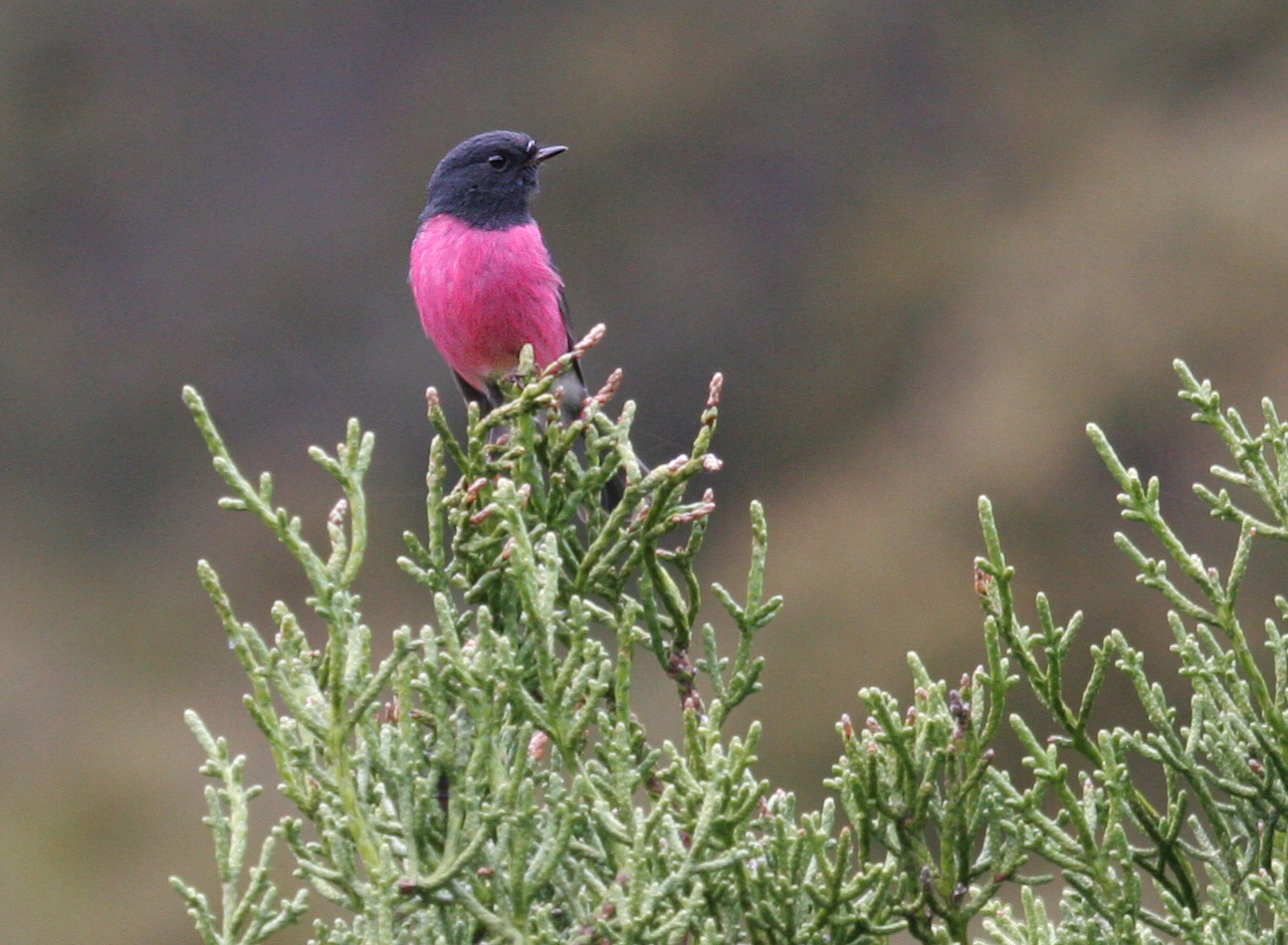 Pink Robin (Petroica rodinogaster), Cradle Mtn. NP, Tasmania, Australia